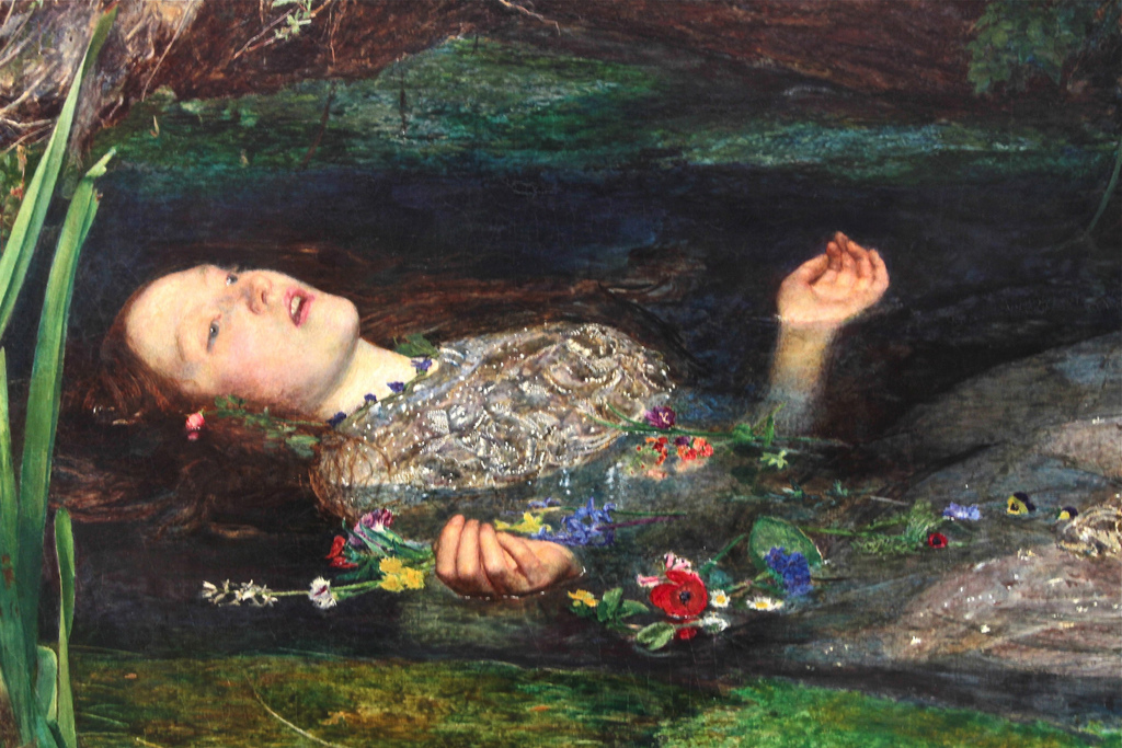 "Ophelia" by Sir John Everett Millais (detail). Tate Britain Gallery.